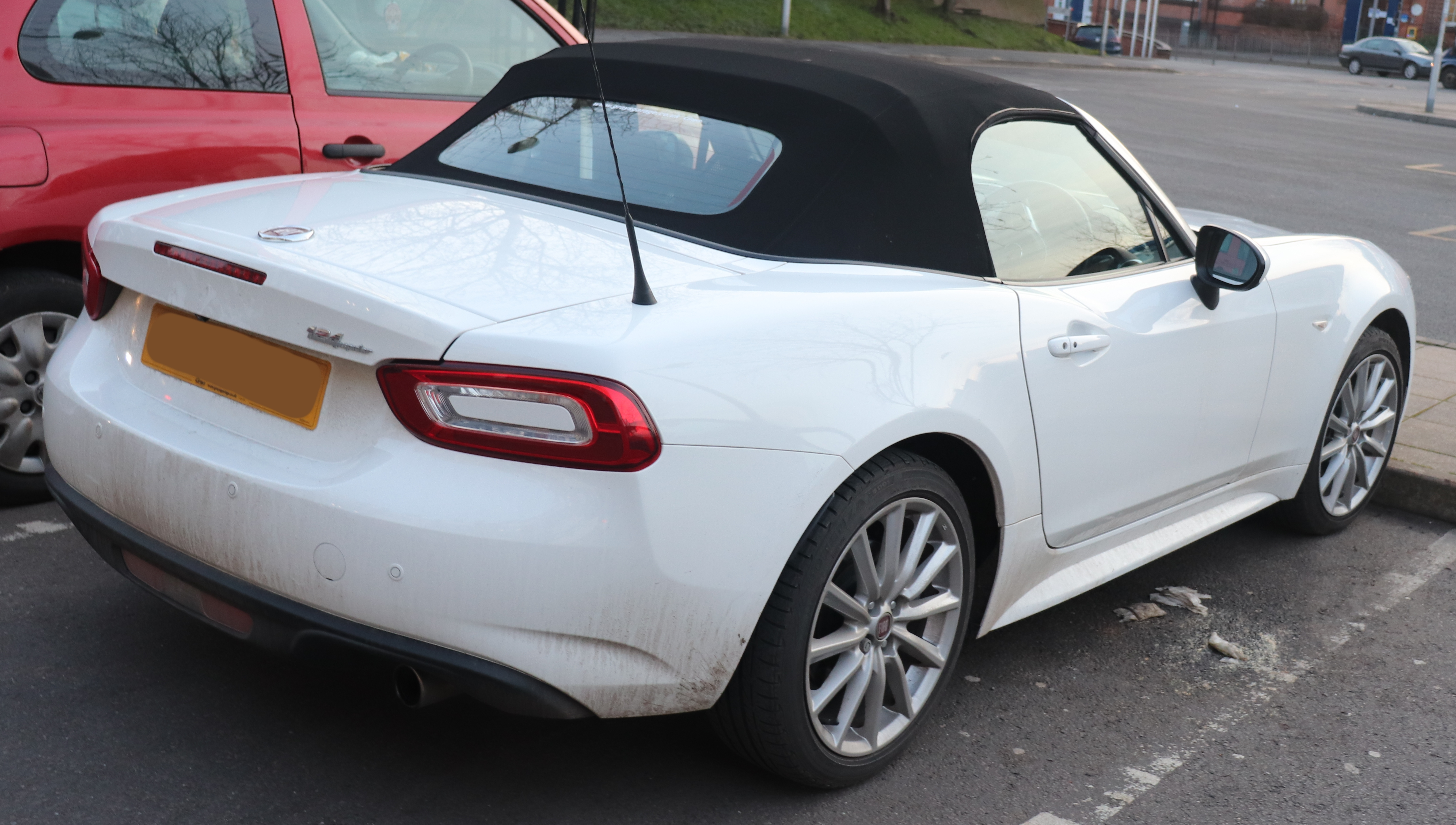 2016 Fiat 124 Spider Lusso+ Multiair 1.4 Rear Taken in Warwick